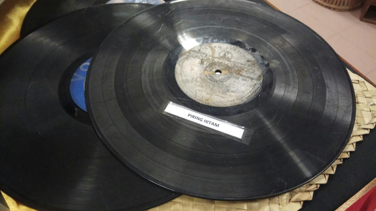 Piring Hitam